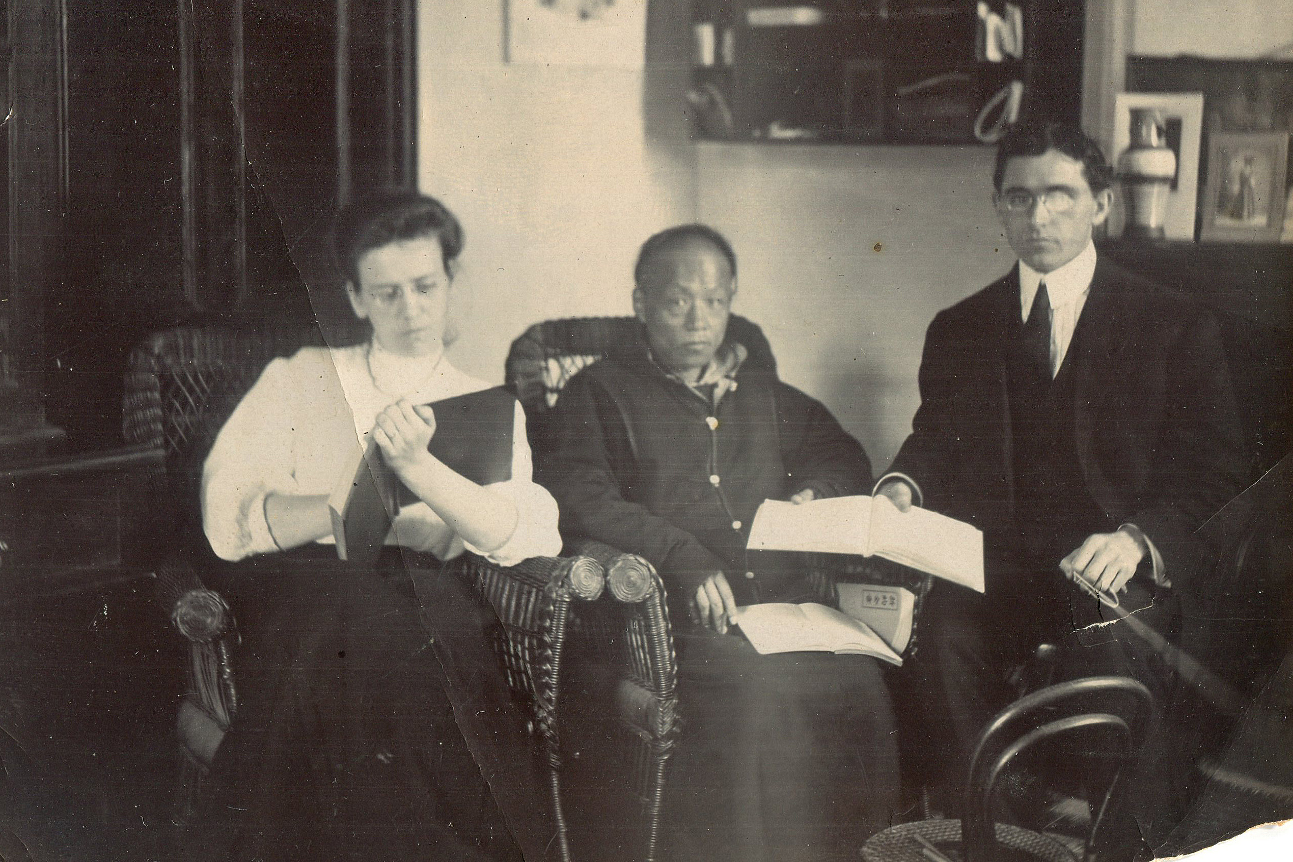 Dr. Snell and his wife learning Chinese